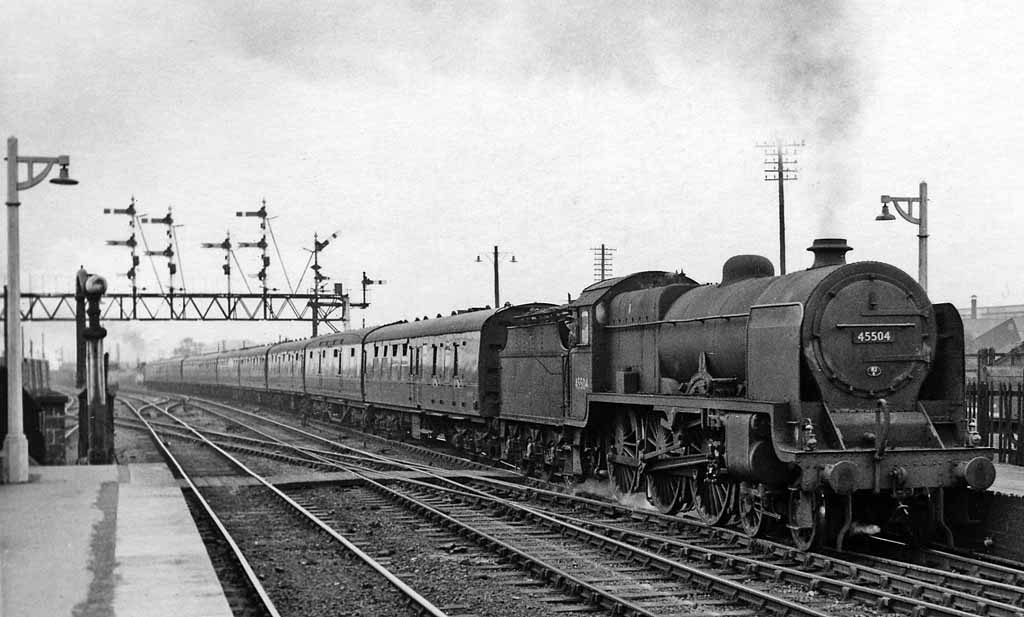 The 14.15 Bristol (Temple Meads) to York express at Bromsgrove. View southward from Bromsgrove's Up platform. LMS Fowler Class 6P 4-6-0 No. 45504 'Royal Signals' is charging at the Lickey Incline (2 miles at 1-in-37), having just paused at Bromsgrove South to take on two WR 94XX 0-6-0Ts as bankers - making a lovely noise.